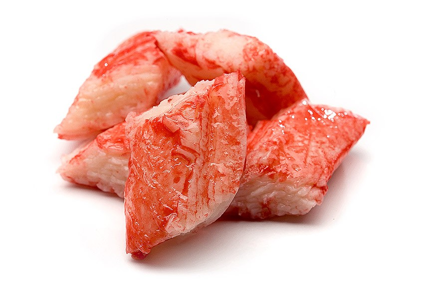 LobNobs